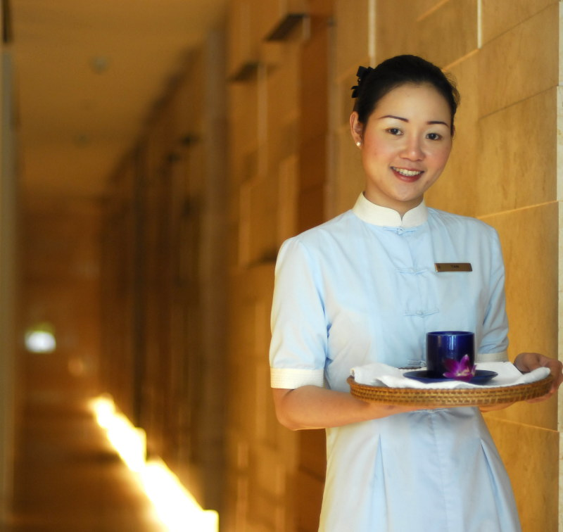 A hotel chambermaid.